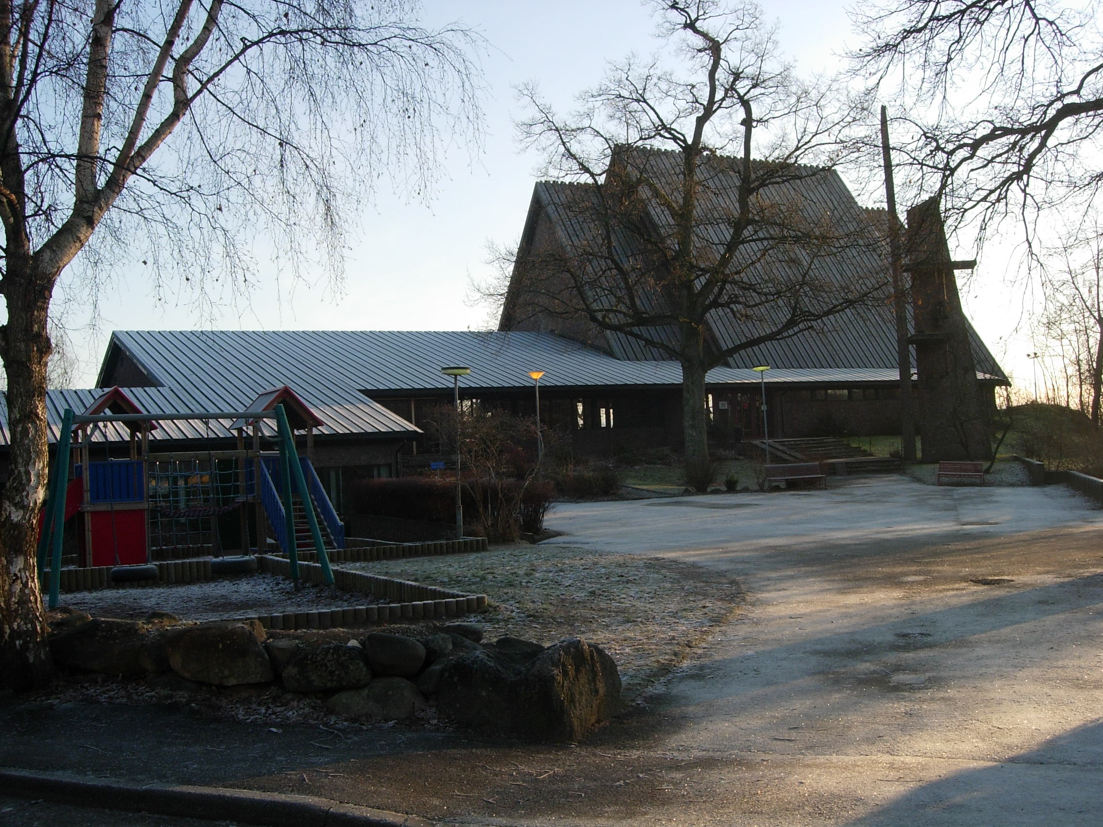 From inside of Jeløy church